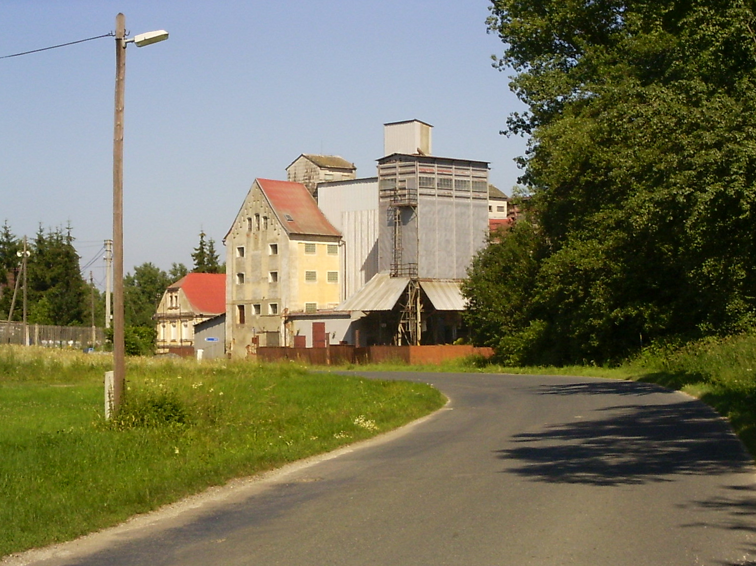 Factory at Meclov